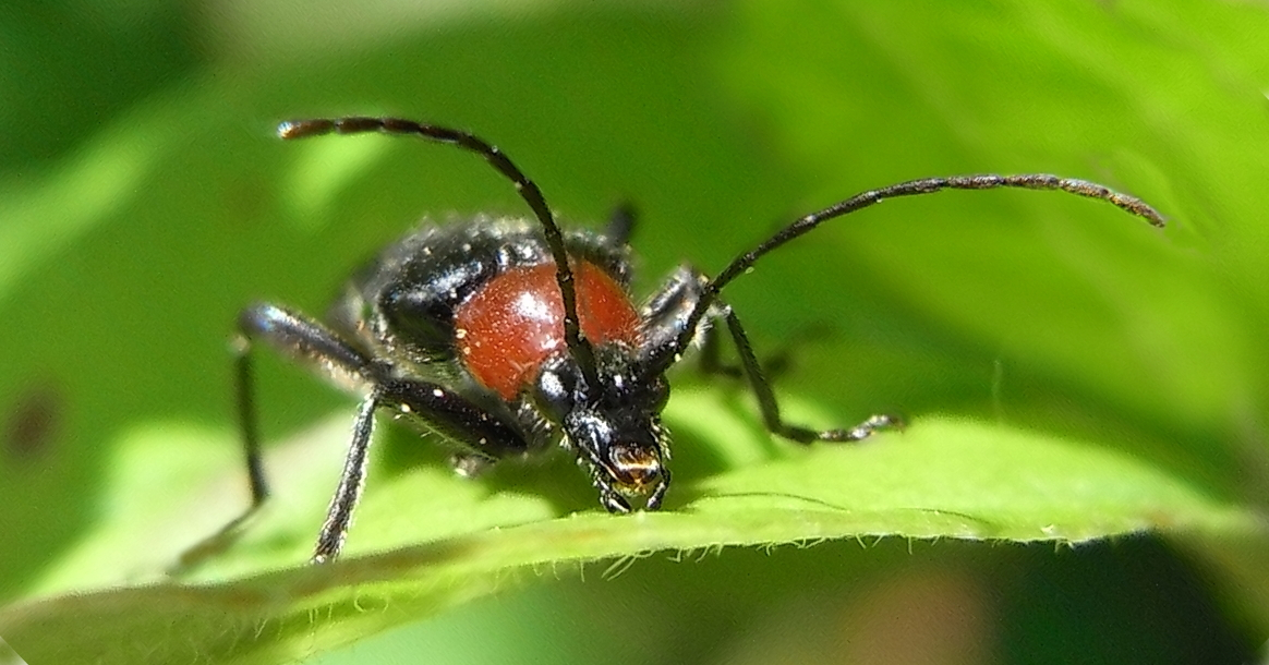 Dinoptera collaris